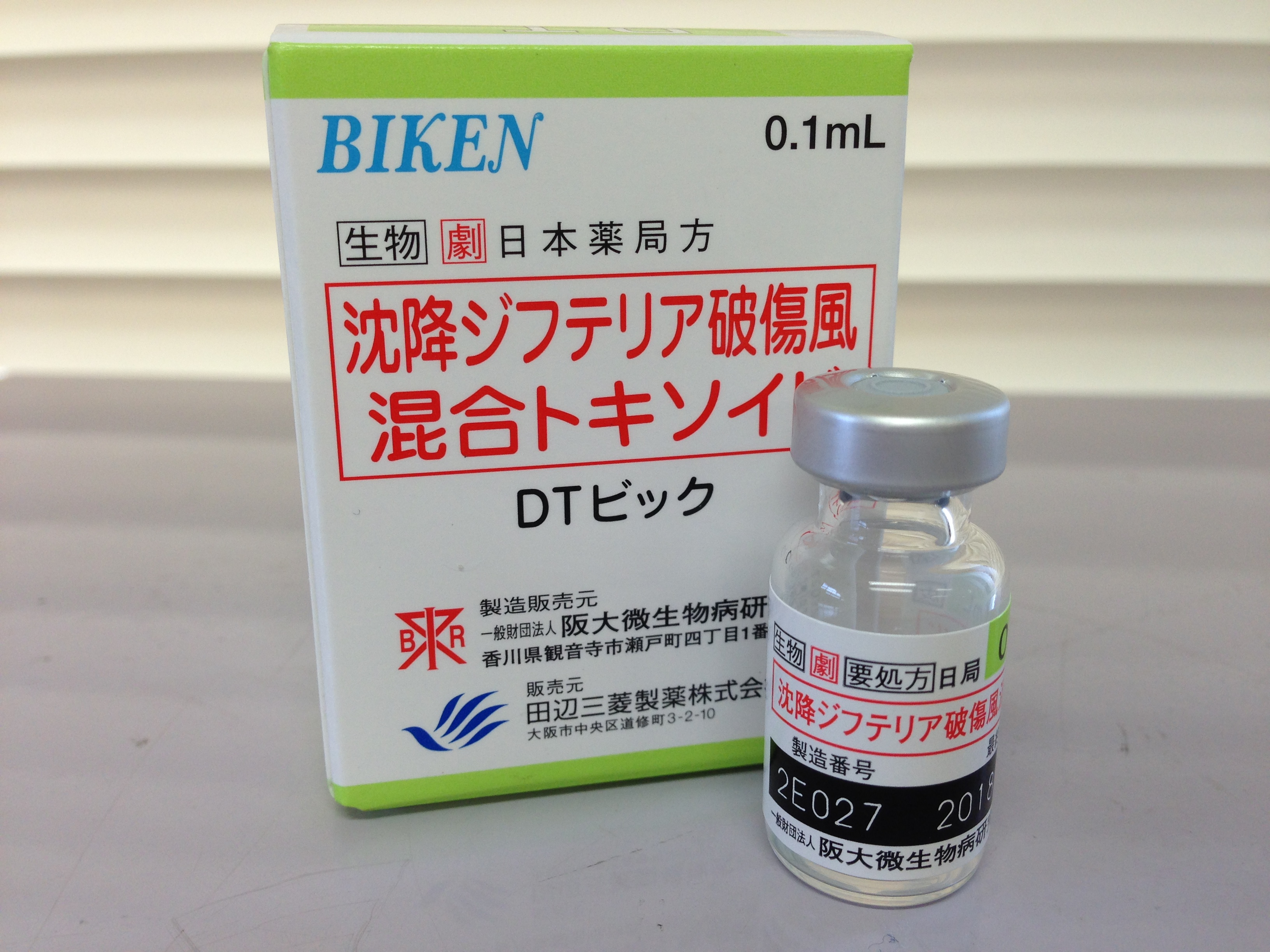 Diphtheria Tetanus vaccine (DT vaccine)